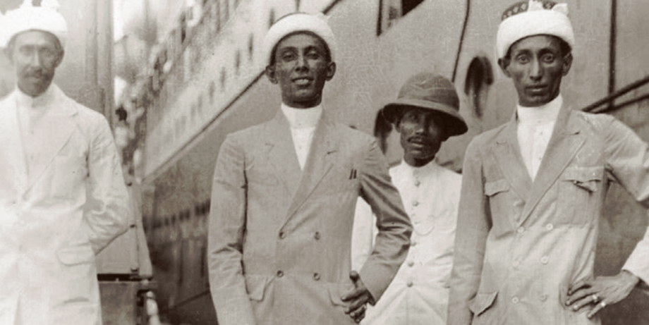 Young Hadhrami immigrants landing in Surabaya, Dutch East Indies, in the 1920s. Starting in the 19th century, a large number of young men from the impoverished Hadhramaut, South Arabia, migrated to the Far East, principally to the Dutch East Indies, Singapore and the Malay States, where they formed prosperous colonies.